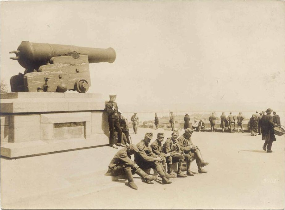 Old Open Letter (Carte Postale) with view of showing soldiers of Austro-Hungarian Army on rest on Nikolayevsky Boulevard in Odessa in 1918. Soldiers are sitting on the basement of monument dedicated to Crimean War, with captured ship gun from destroyed in 1854 near Odessa shores HMS Tiger (1849).